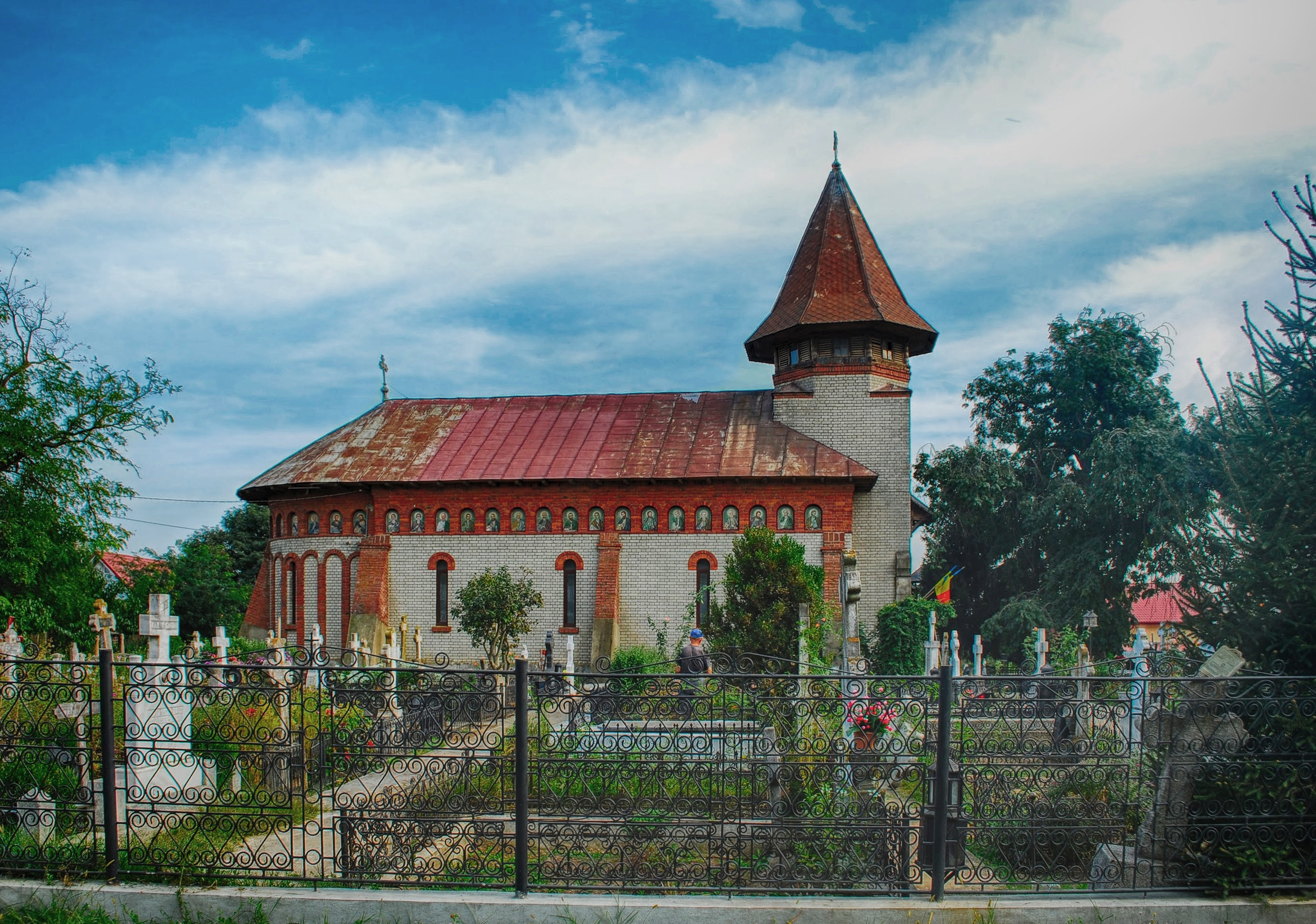 Saint Nicholas' church in Moara Domnească, Găneasa Commune, Ilfov County, RomaniaRomână: Biserica „Sfântul Nicolae” din satul Moara Domnească, comuna Găneasa, județul Ilfov, România